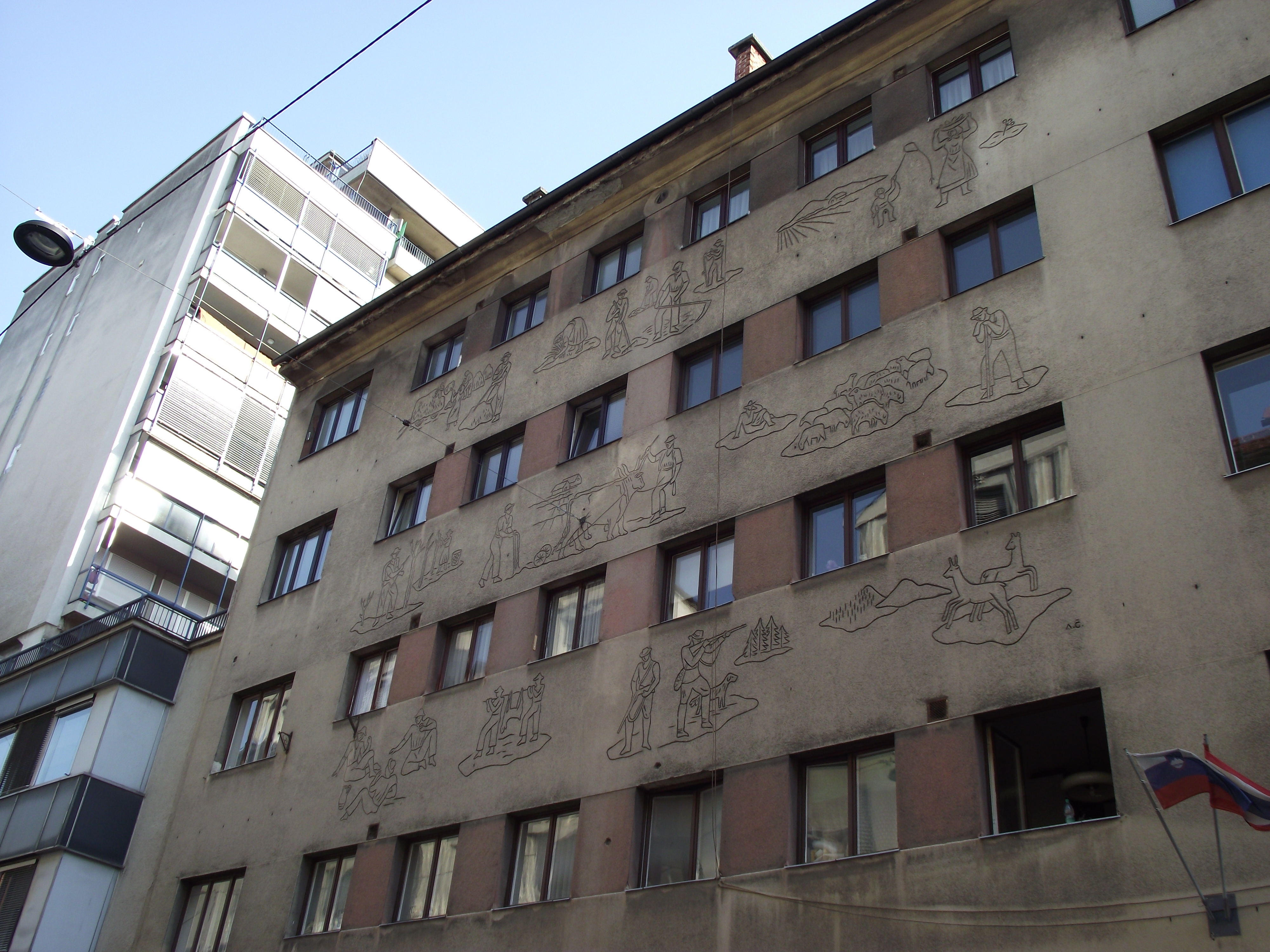 (City Centre) Pražakova ulica General Consulate of Thailand in Ljubljana.